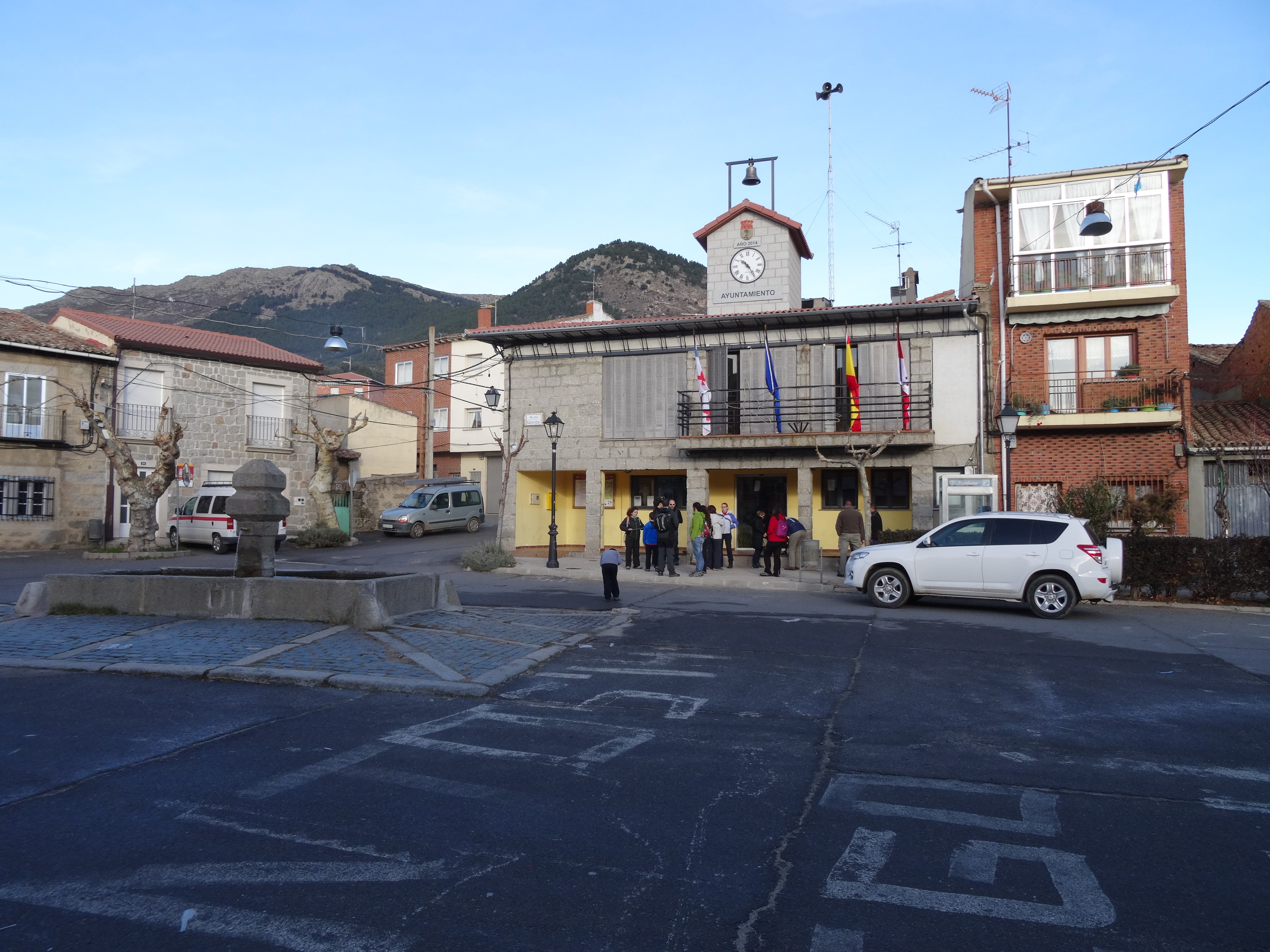 Plaza Grande de Navalmoral de la Sierra con su Pilón Centenario